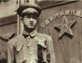 1950年10月，中华人民共和国全国战斗英雄会议，1950年8月的《人民画报》。